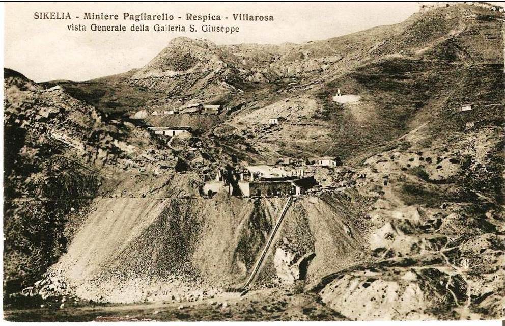 Miniera Respica-Pagliarello (Villarosa) (1).jpg